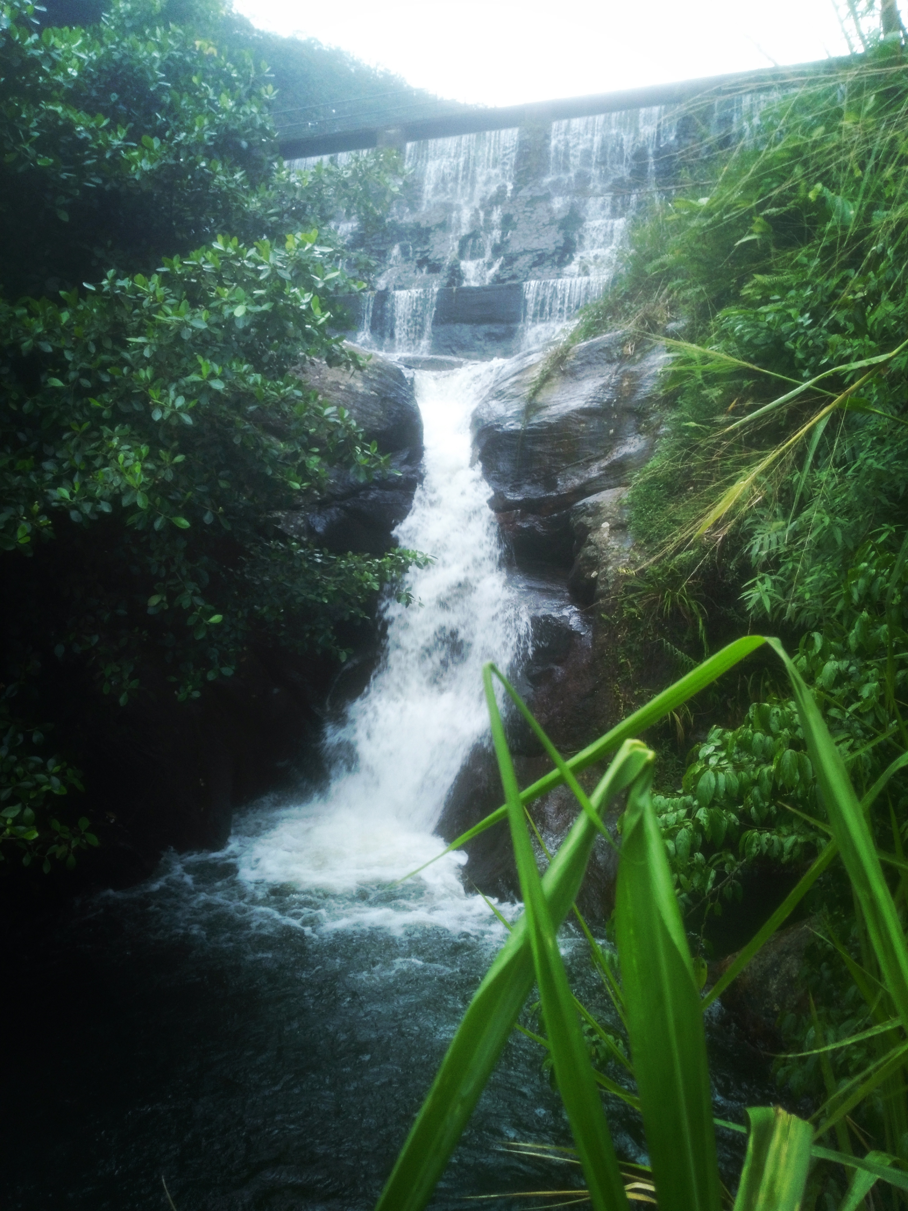 starting point of Hunnas Falls